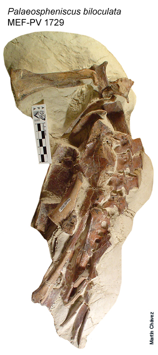 Specimen MEF-PV 1729 of Palaeospheniscus biloculata